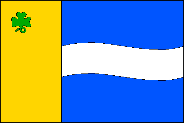 Municipal flag of Habrovany village, Ústí nad Labem District, Czech Republic.